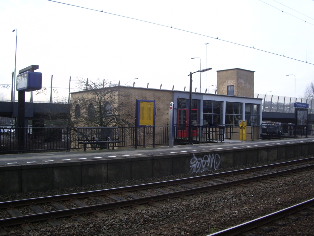 Station Rotterdam Noord. Eigen werk, februari 2007 Rotterdam Noord railway station. Own work, february 2007